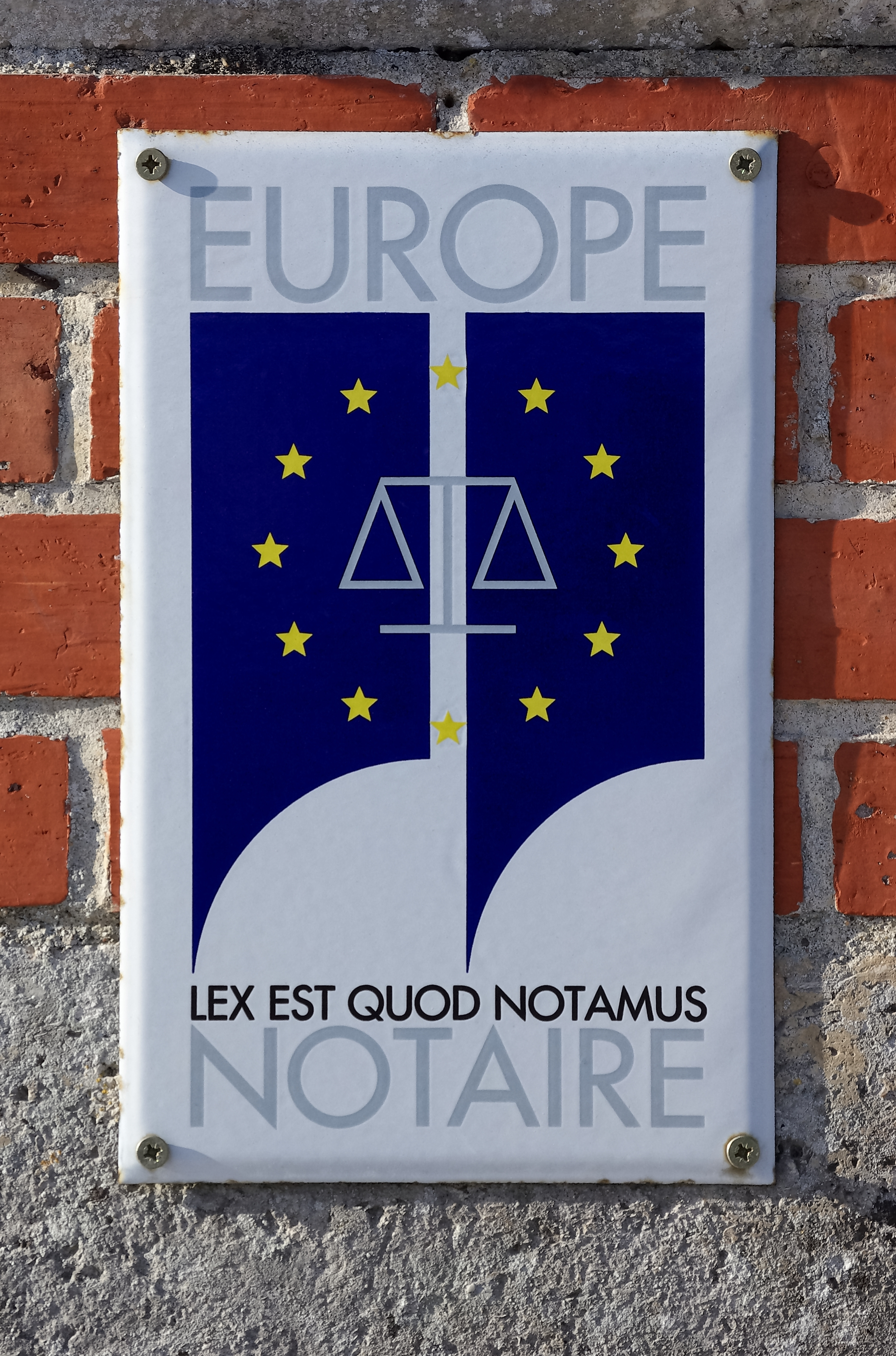 Civil-law notary sign (Europe) with latin motto, Saint-Aulaye, Dordogne, France.